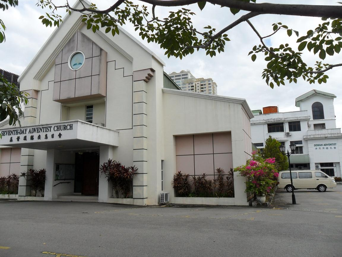 7th-Day Adventist Church, Georgetown, Penang, Malaysia